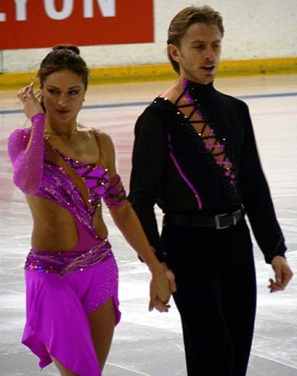 Margarita Drobiazko and Povilas Vanagas at the 2006 European Figure Skating Championships